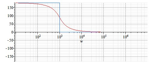 Bode plot (phase) of a second order high pass system